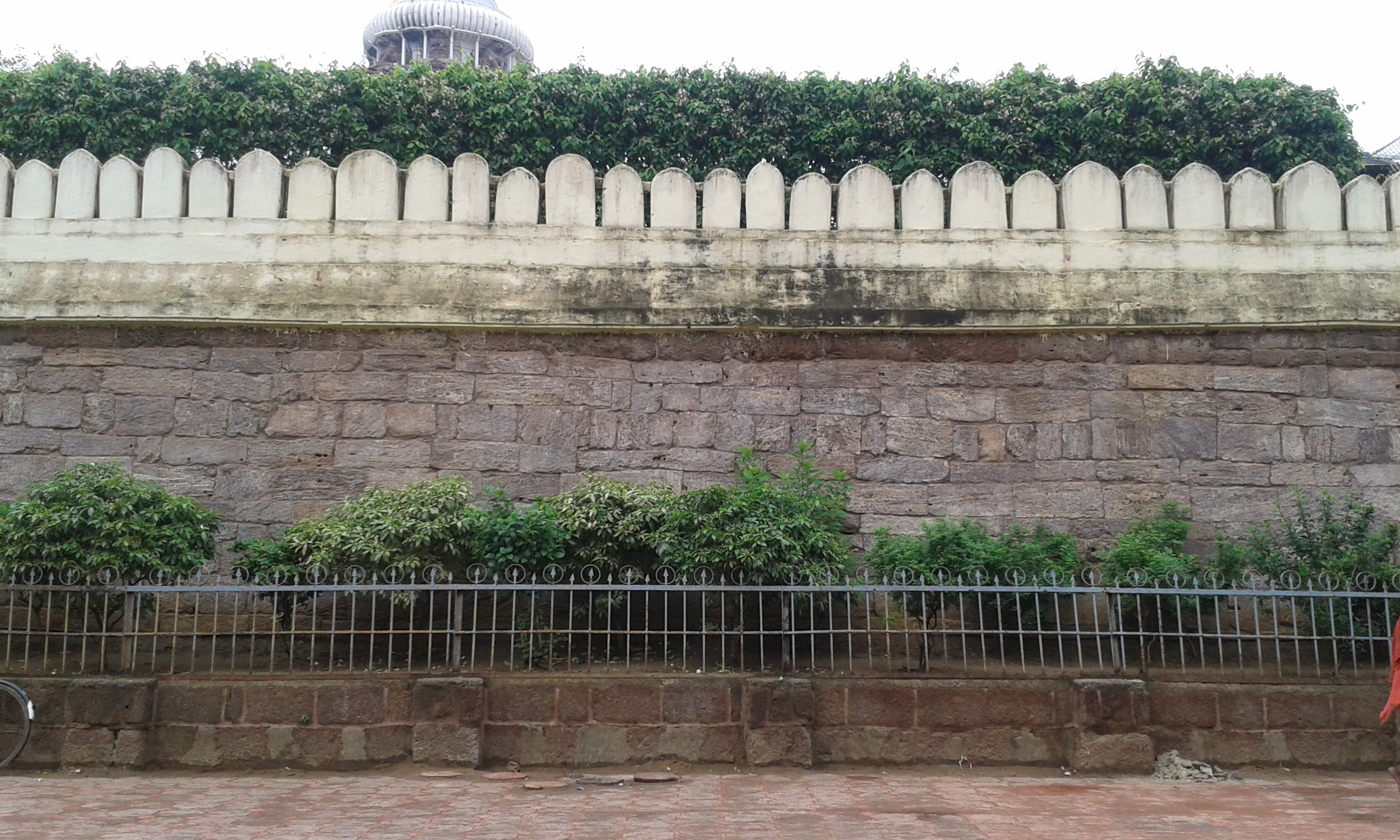 Meghanad wall, puri ଓଡ଼ିଆ: ମେଘନାଦ ପ୍ରାଚୀର